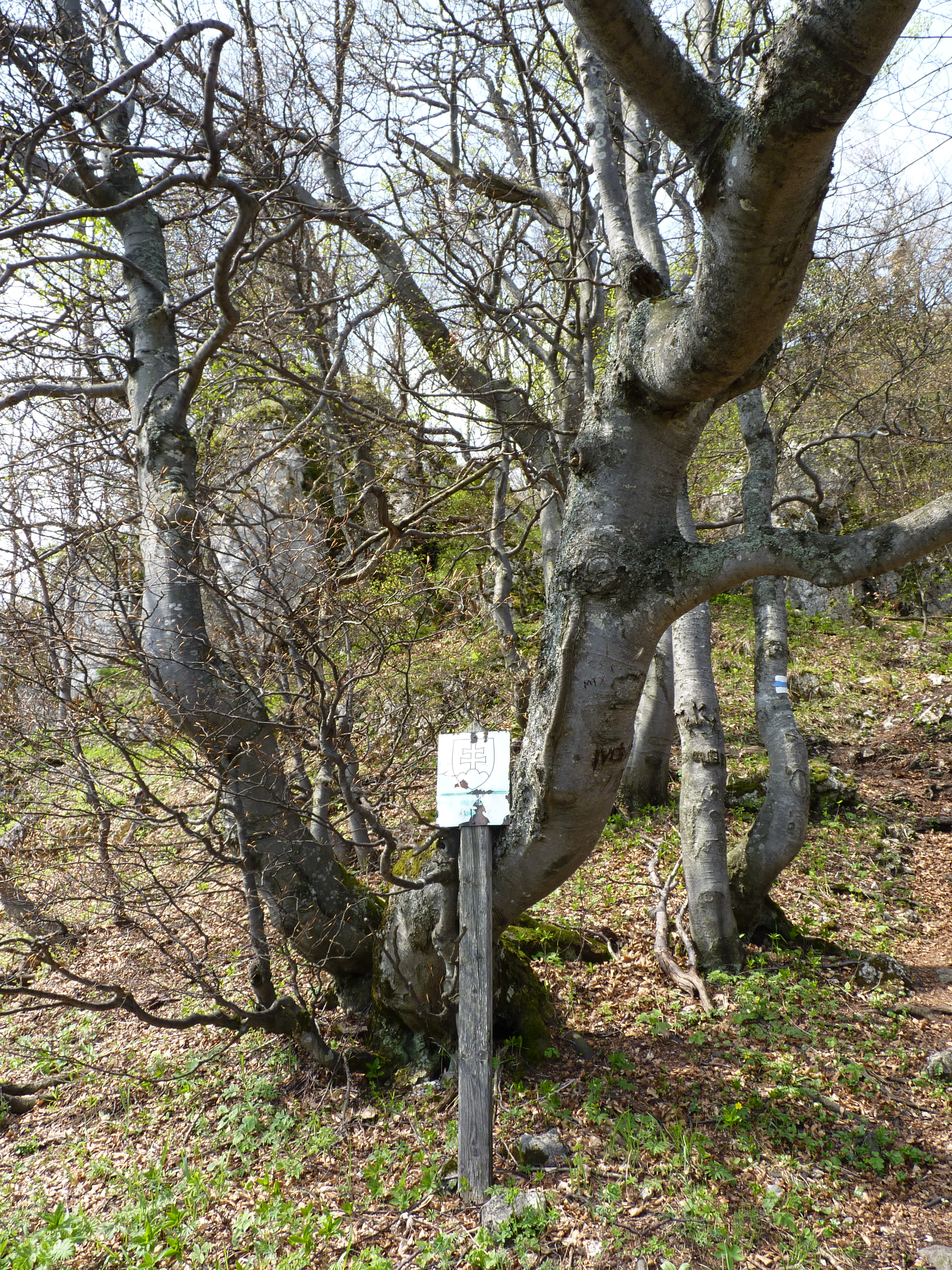 Natural monument Majerova skala. Great Fatra, Slovakia